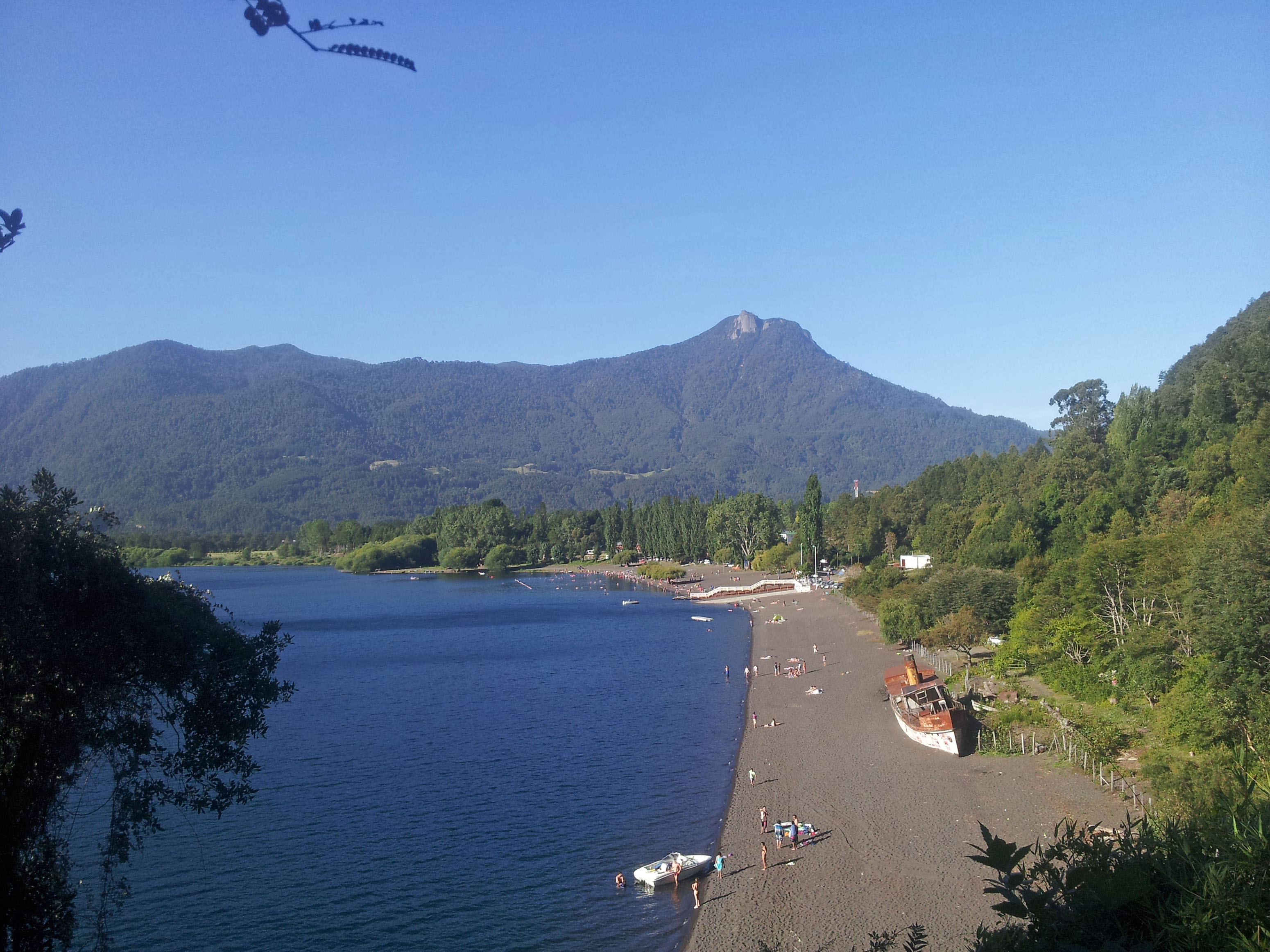 Choshuenco Beach, Región de los Ríos, Chile